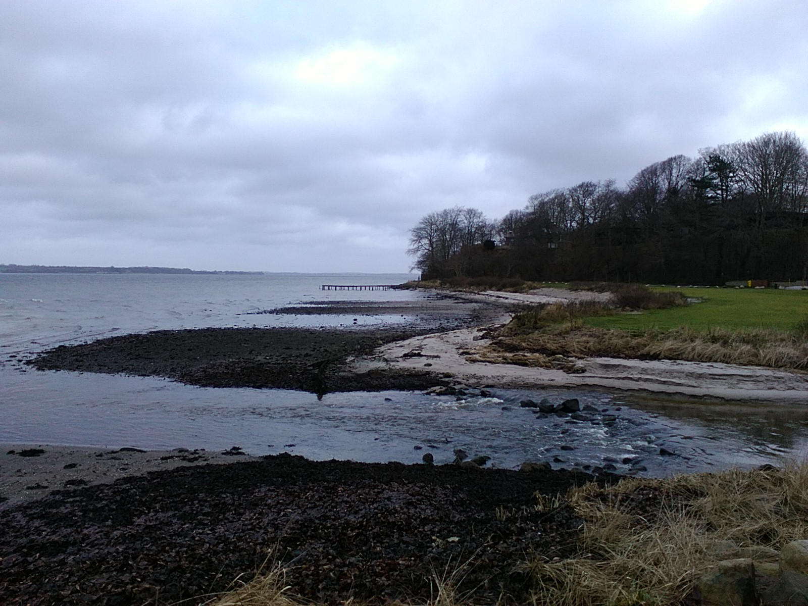 Schwennau beach, Glücksburg (Ostsee), Germany